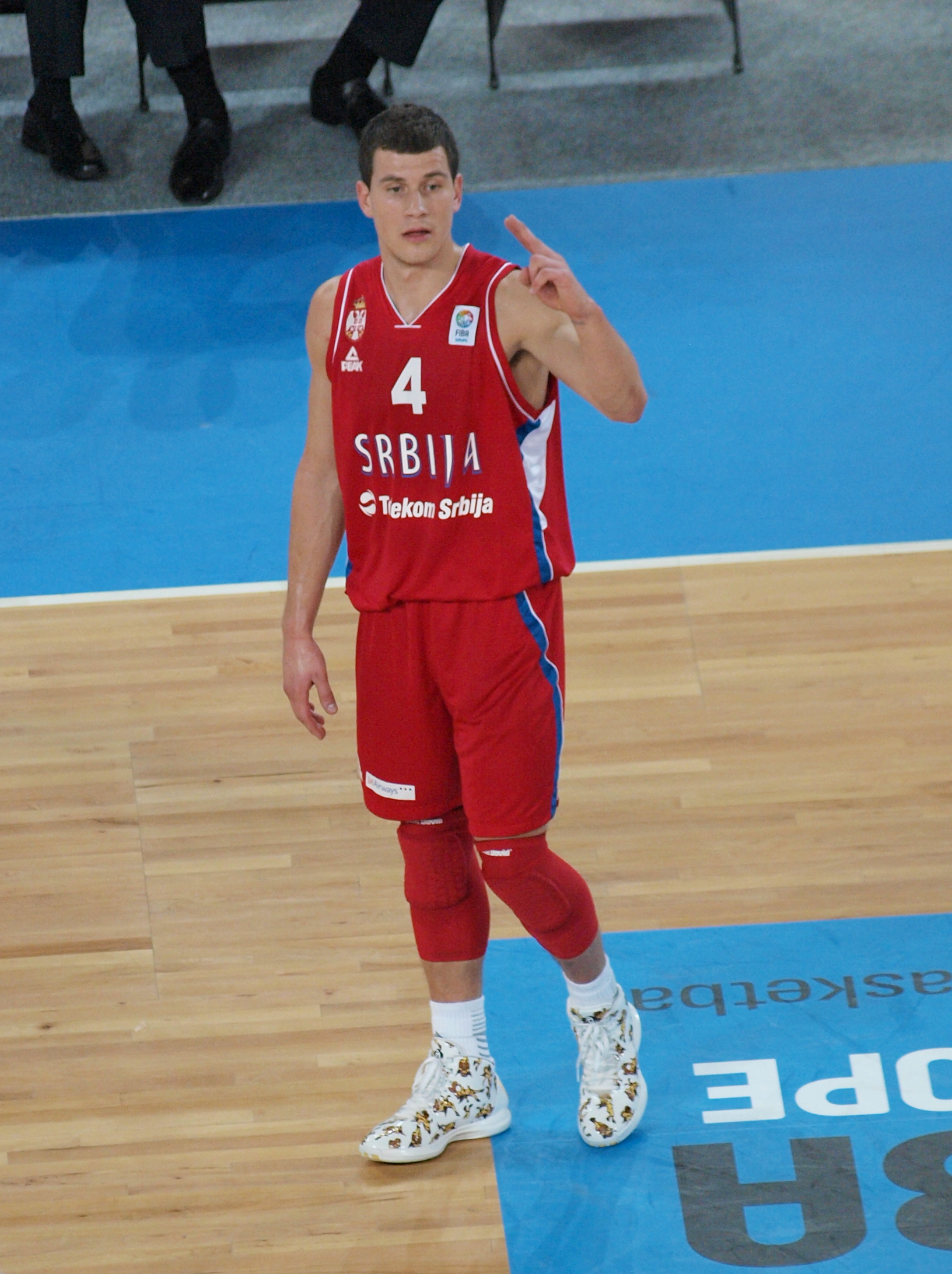 Nemanja Nedović playing for Serbia on Eurobasket 2013. Српски (ћирилица): Немања Недовић у дресу српске репрезентације на Еуробаскету 2013 у Словенији.